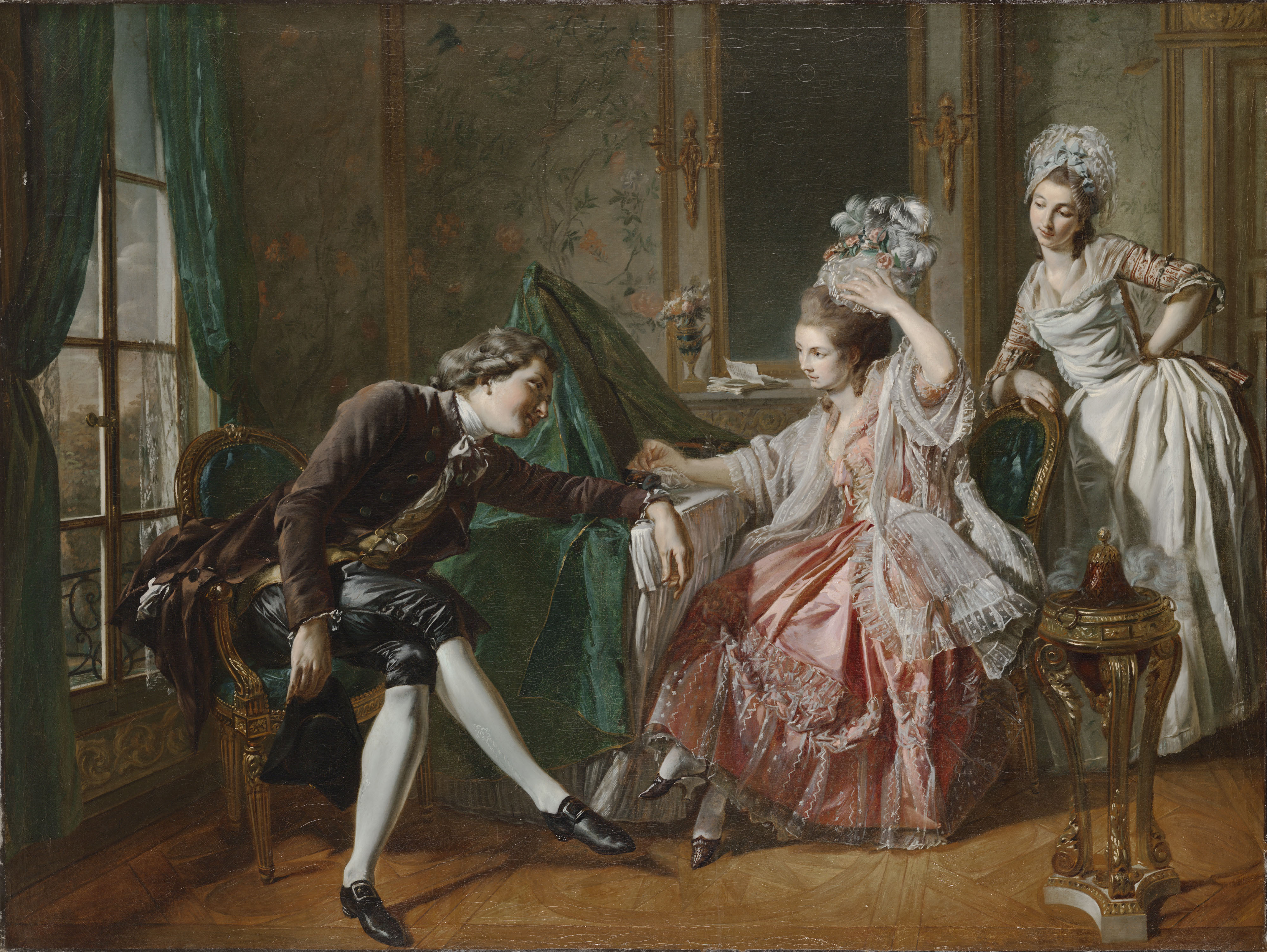 An Interior with a Lady, her Maid, and a Gentleman by Louis-Roland Trinquesse, 1776, oil on canvas, 96.52 x 121.92 cm (38 x 48 in.), Wadsworth Atheneum